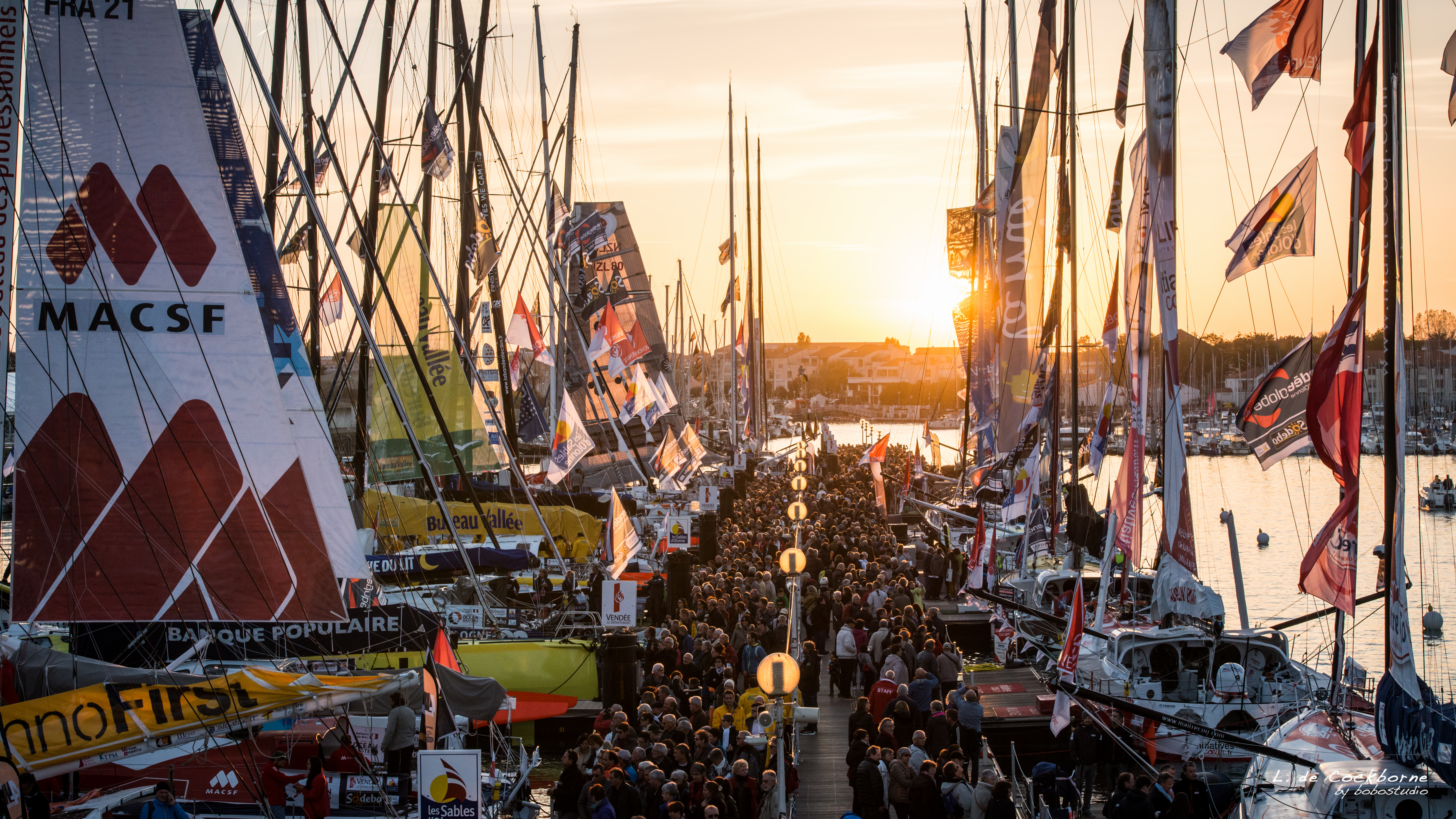 Reportage Vendée Globe 2016